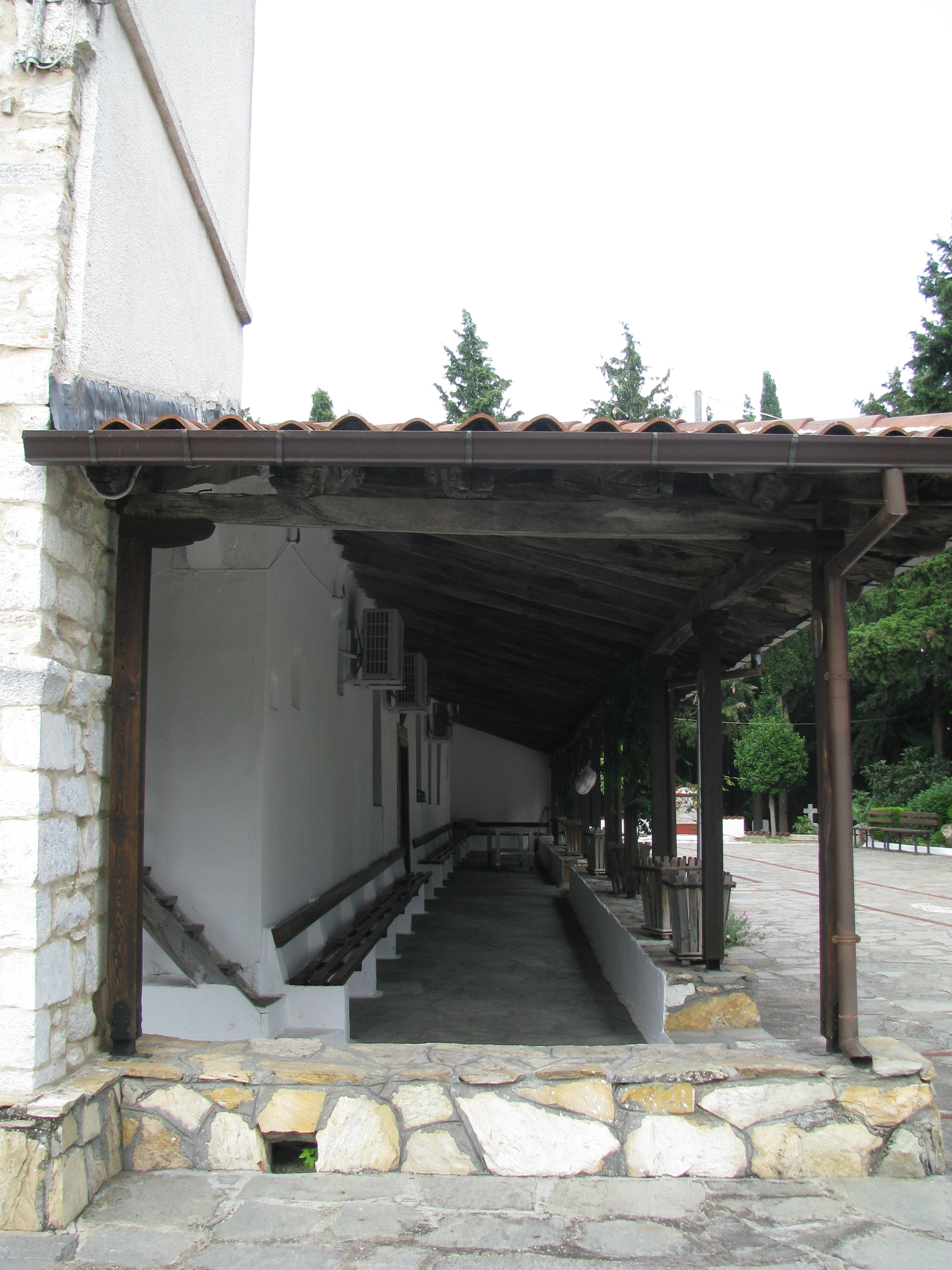 Fragment of church of St. Atanasios in Kriva/Griva, Greece